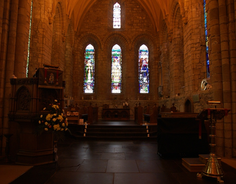 Dornoch Cathedral, Dornoch, Highland, Scotland - choir